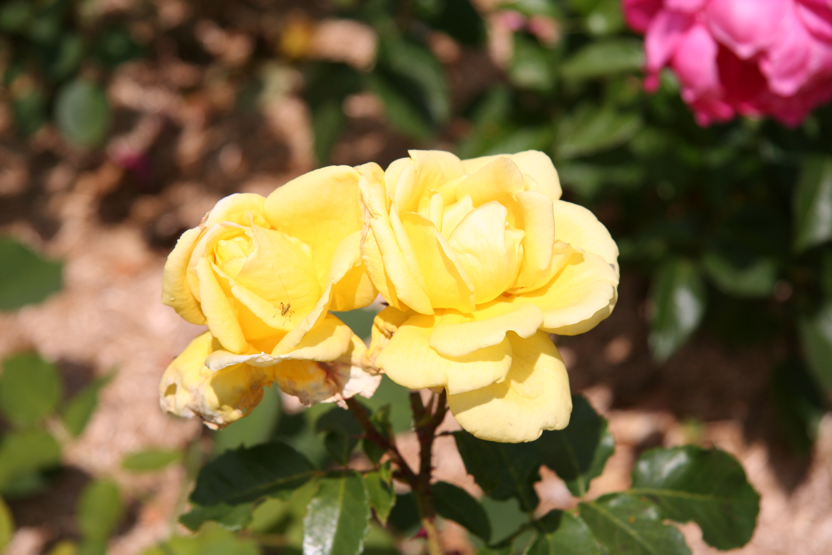 Claudius Pernet rose - Bagatelle Rose Garden (Paris, France).